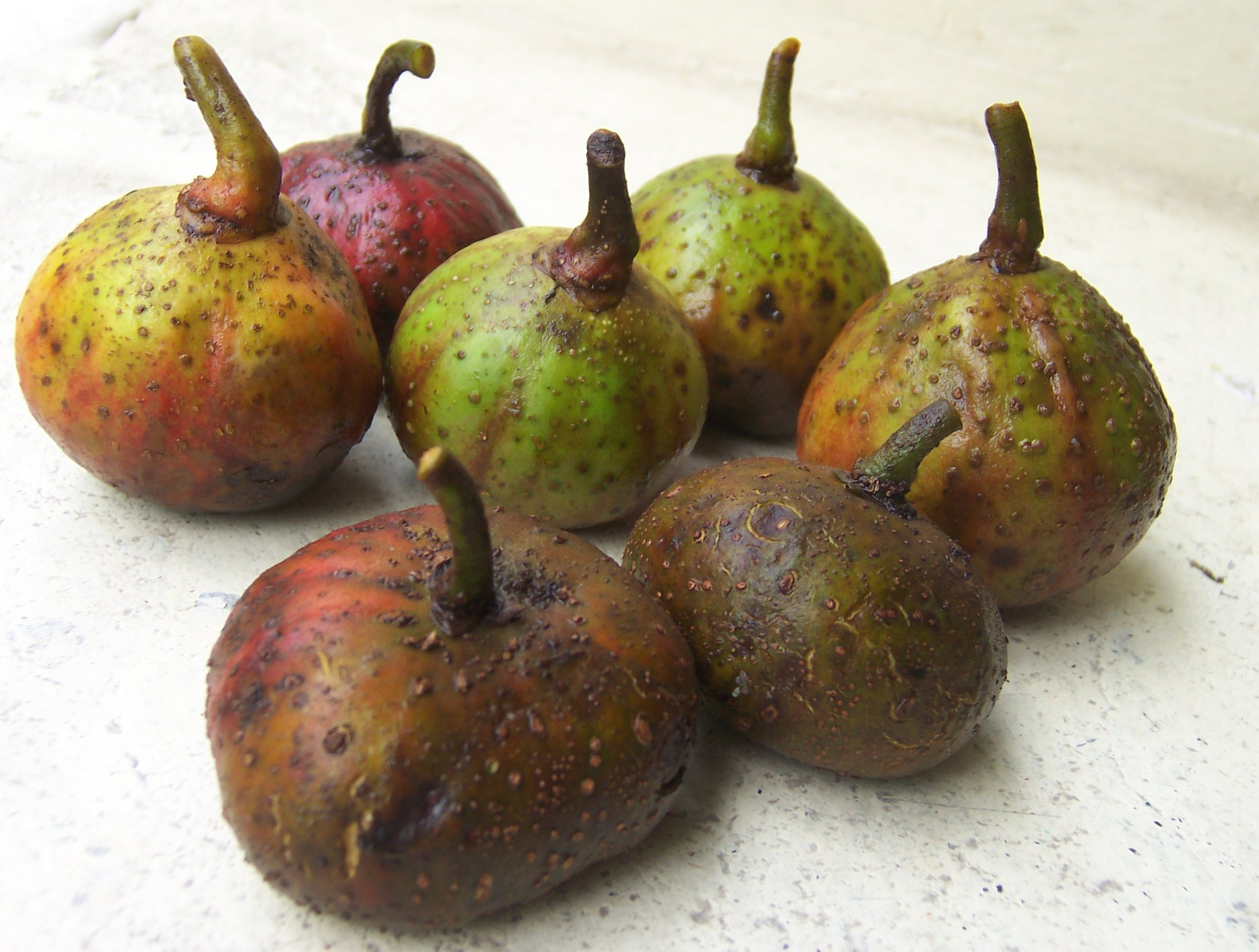 Ficus mauritiana (fruit) (Réunion island)